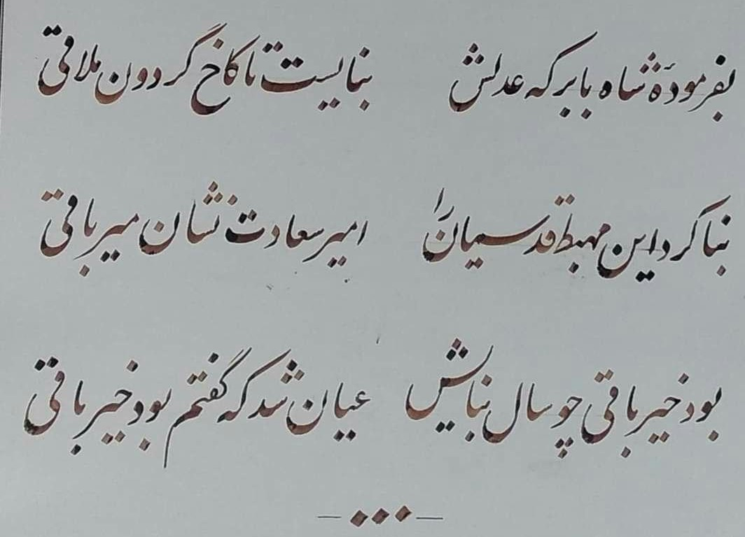 replica from the original persian manuscript